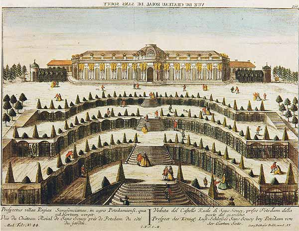 Picture about the castle of Sanssouci in Brandenburg.